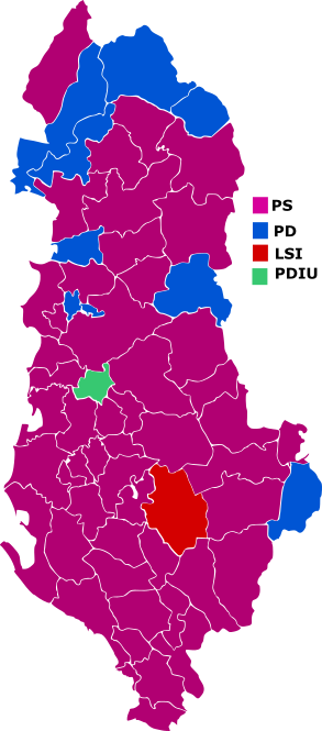 Albanian parliamentary elections 2017 filled with most voted party (municipality level)